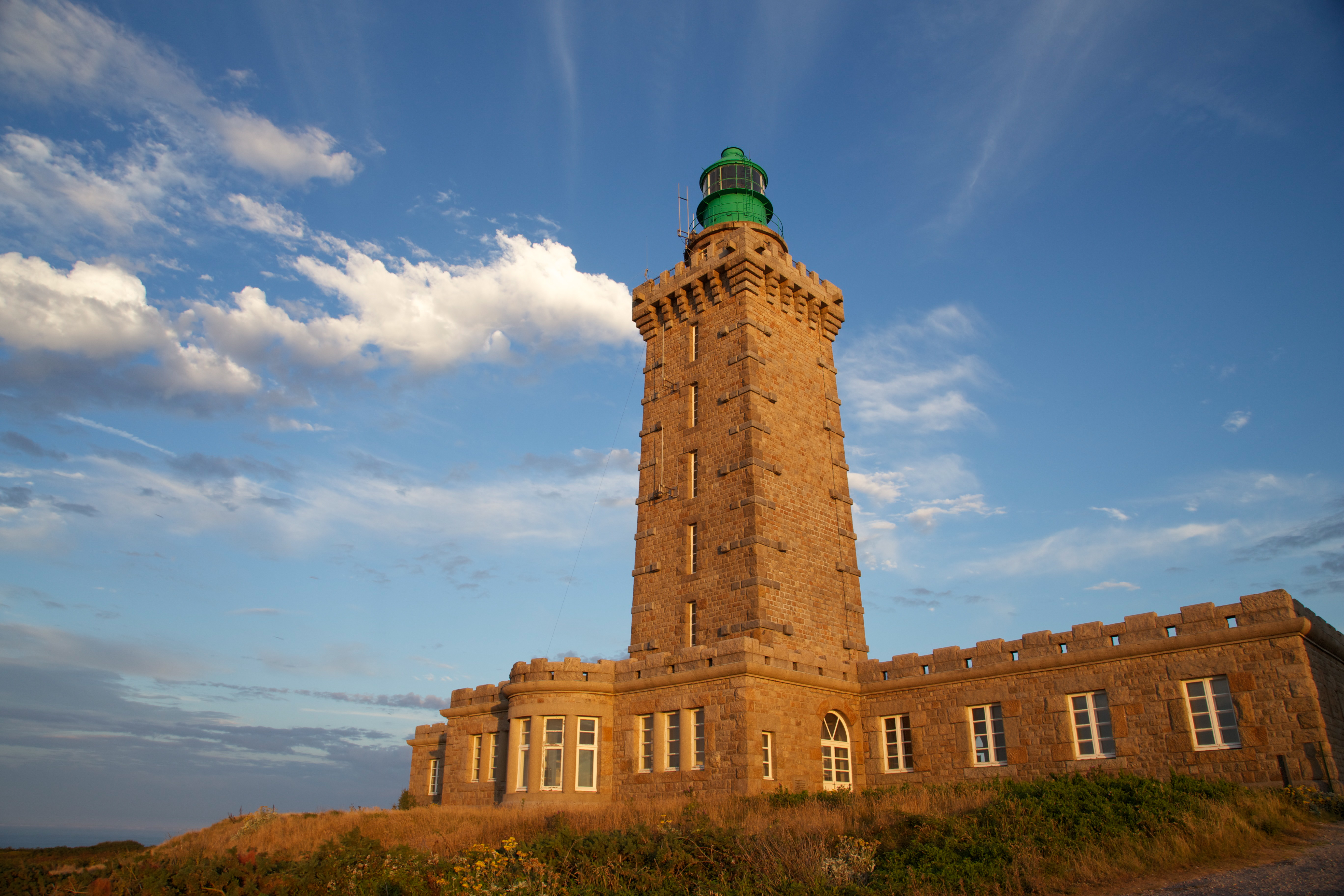 Cap Fréhel Lighthouse, Côtes d'Armor, Brittany